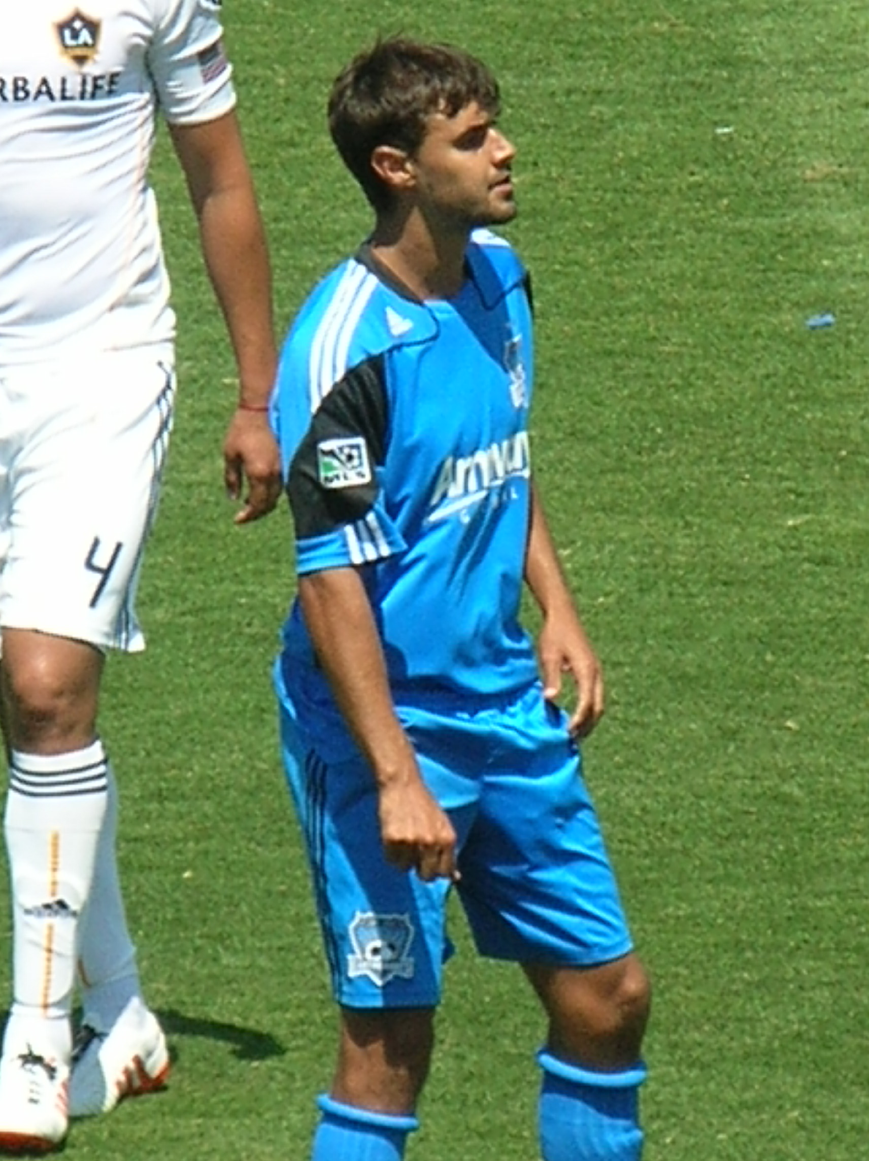 San Jose Earthquakes forward Chris Wondolowski at a home game against the LA Galaxy. The Earthquakes won 1-0